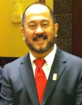 Senator Enverga (Cropped)